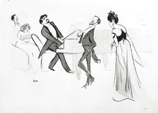 Caricature of Reynaldo Hahn